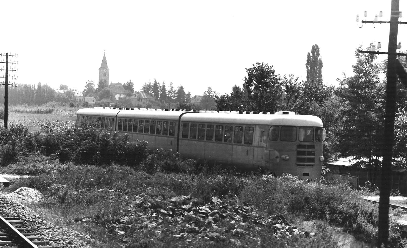 Narrow gauge diesel train Zagreb-Samobor